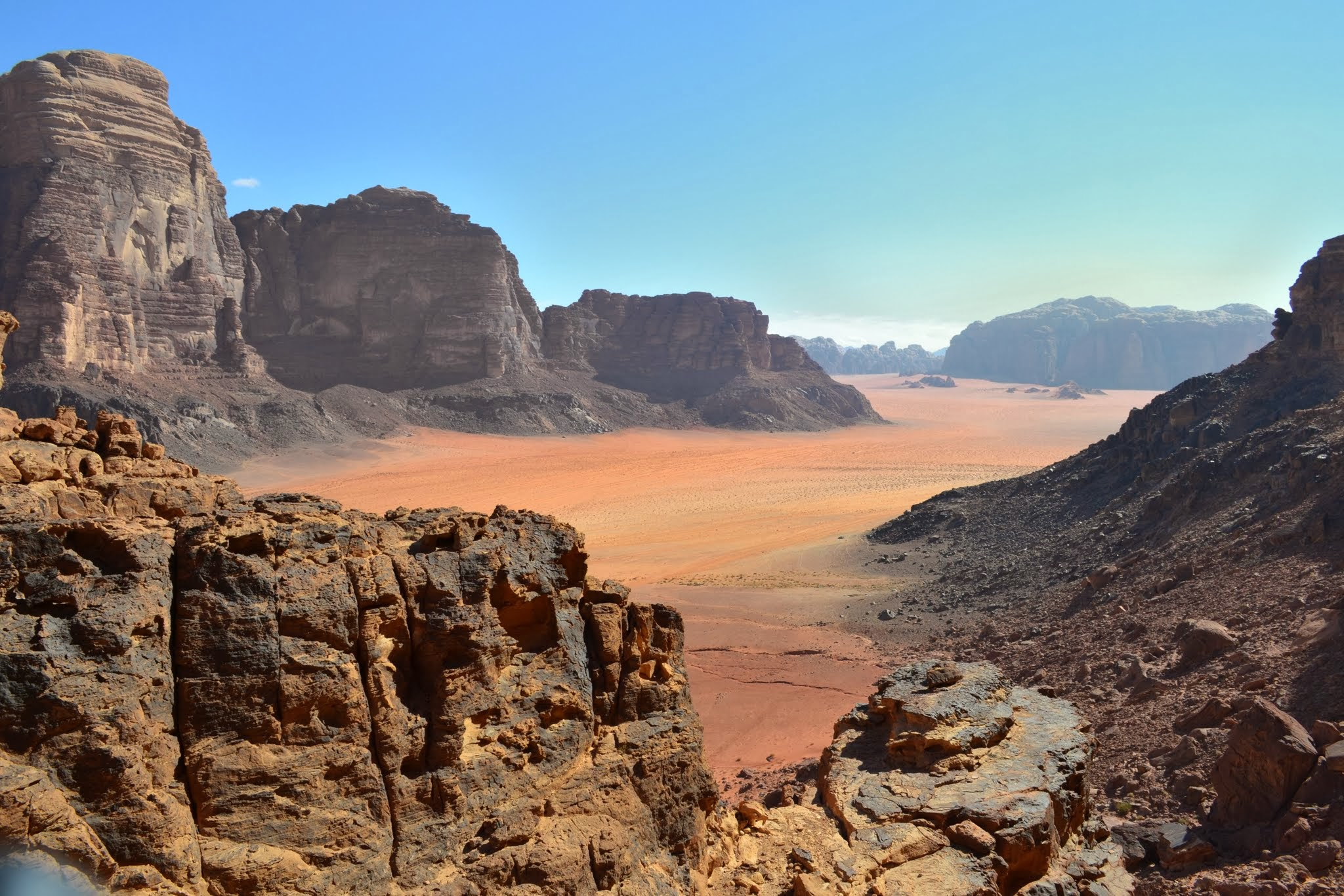 21 Lawrence of Arabia Spring - Magnificent Views at the Top of the Trail